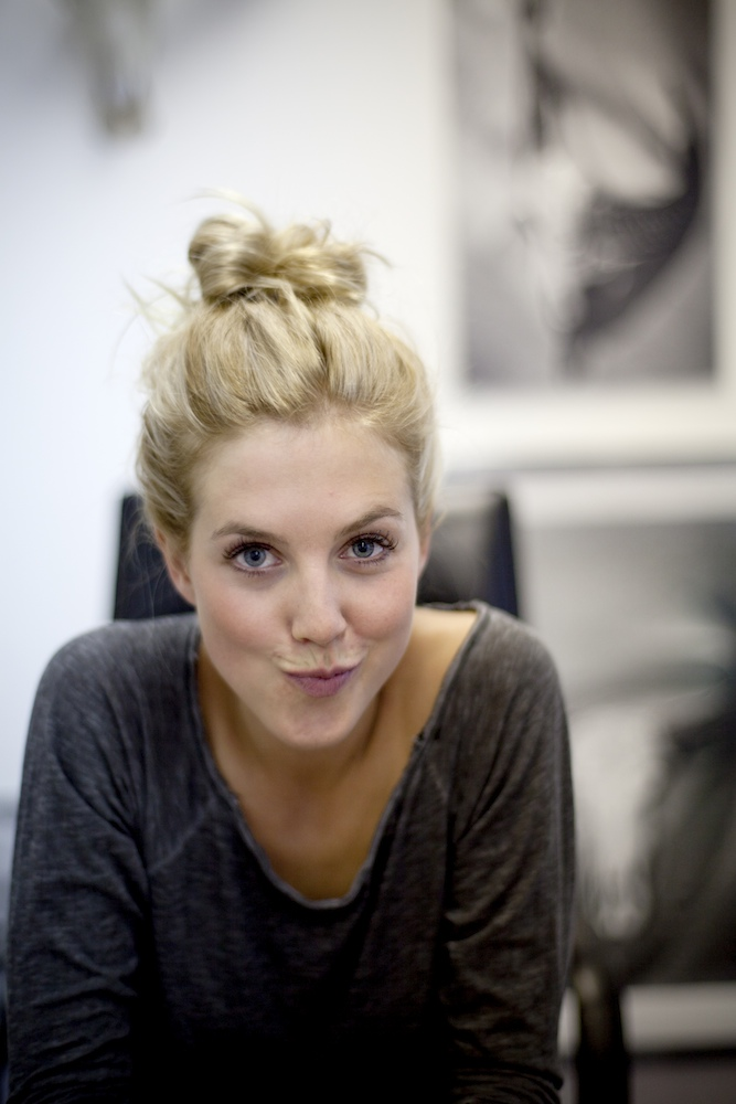 Nellie Benner